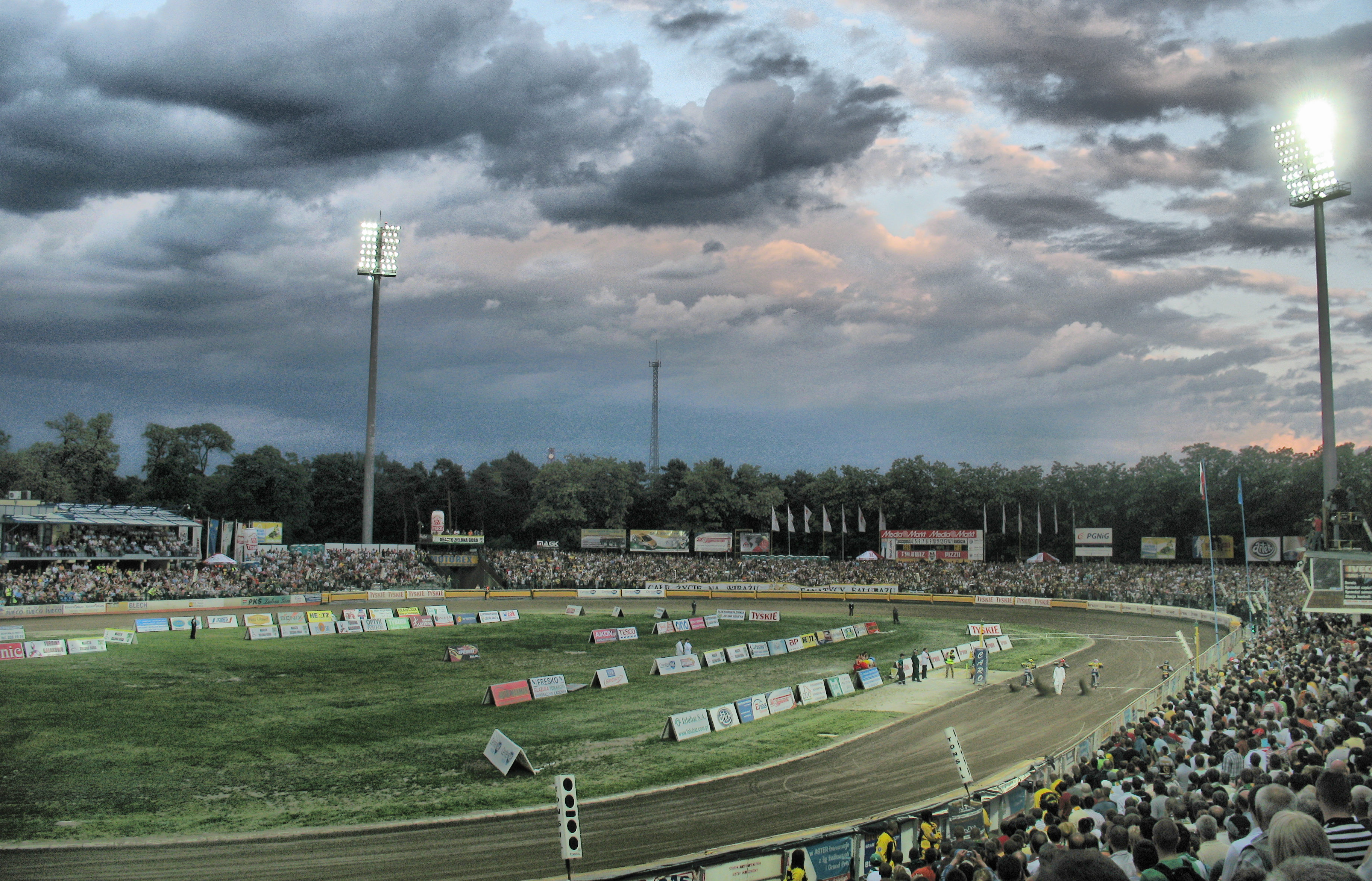 Speedway top league in Poland. Falubaz Zielona Góra vs Caelum Stal Gorzów